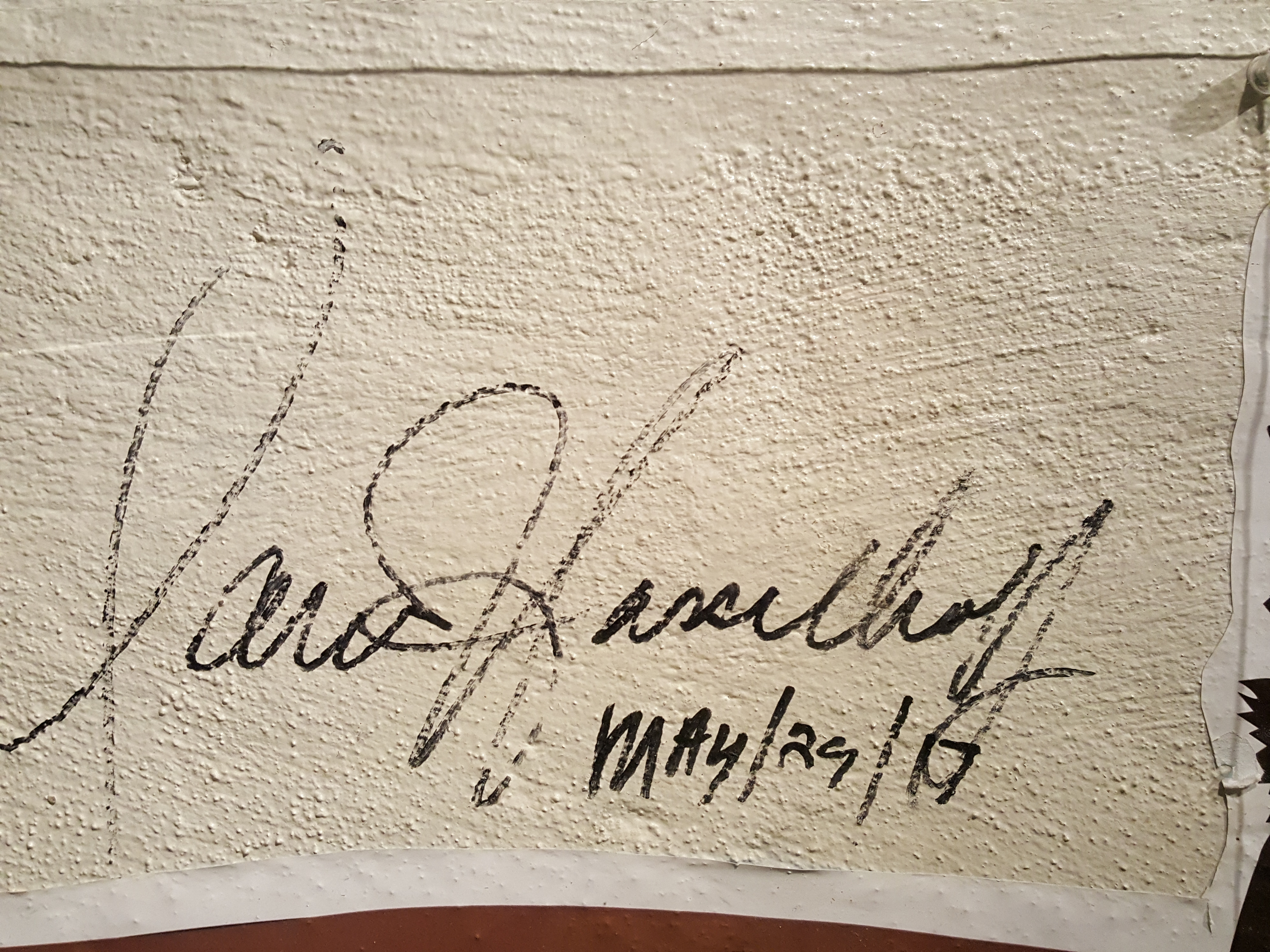 Signature of David Hasselhoff in the David Hasselhoff Museum in Berlin